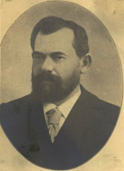 Hebrew writer Yehuda Leib Levin (Yahalal)